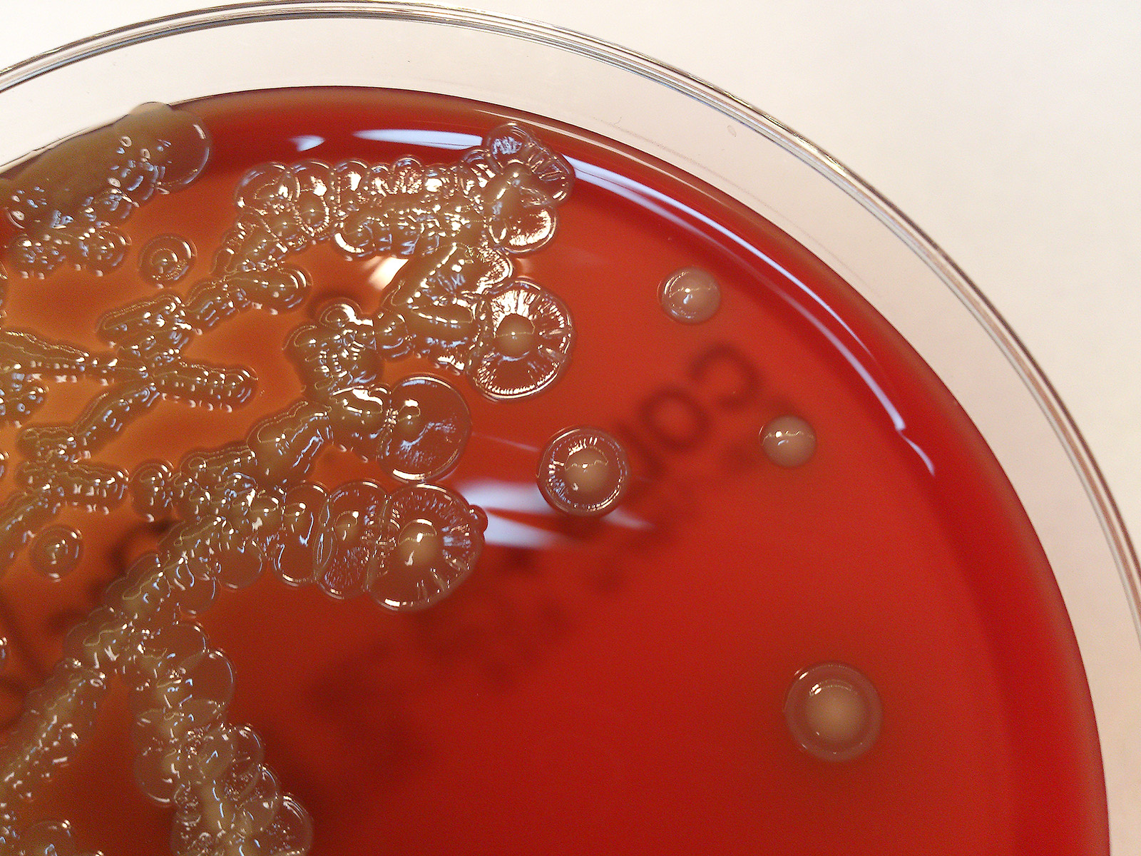 Bergeyella zoohelcum colonies on the blood agar plate.